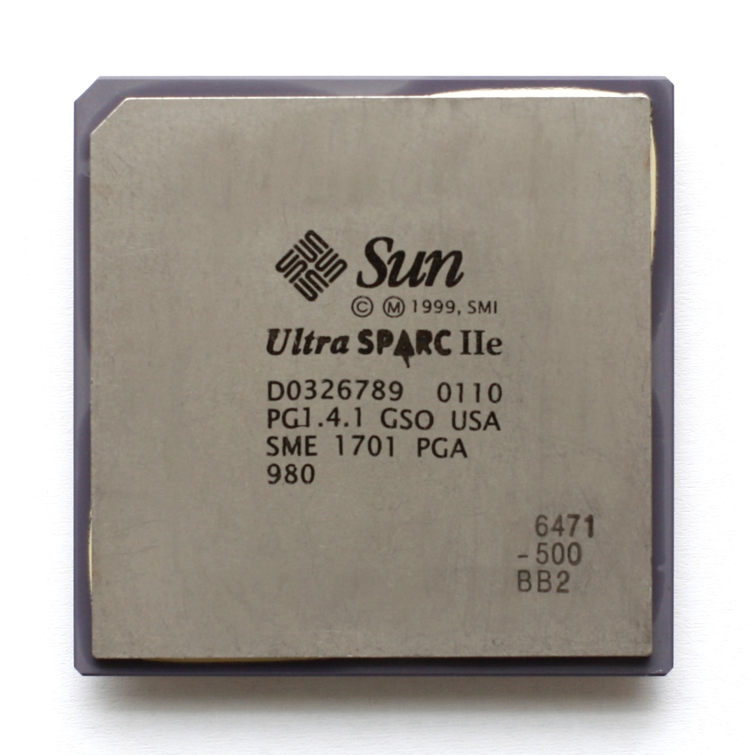 CPU SUN UltraSparc 2e.